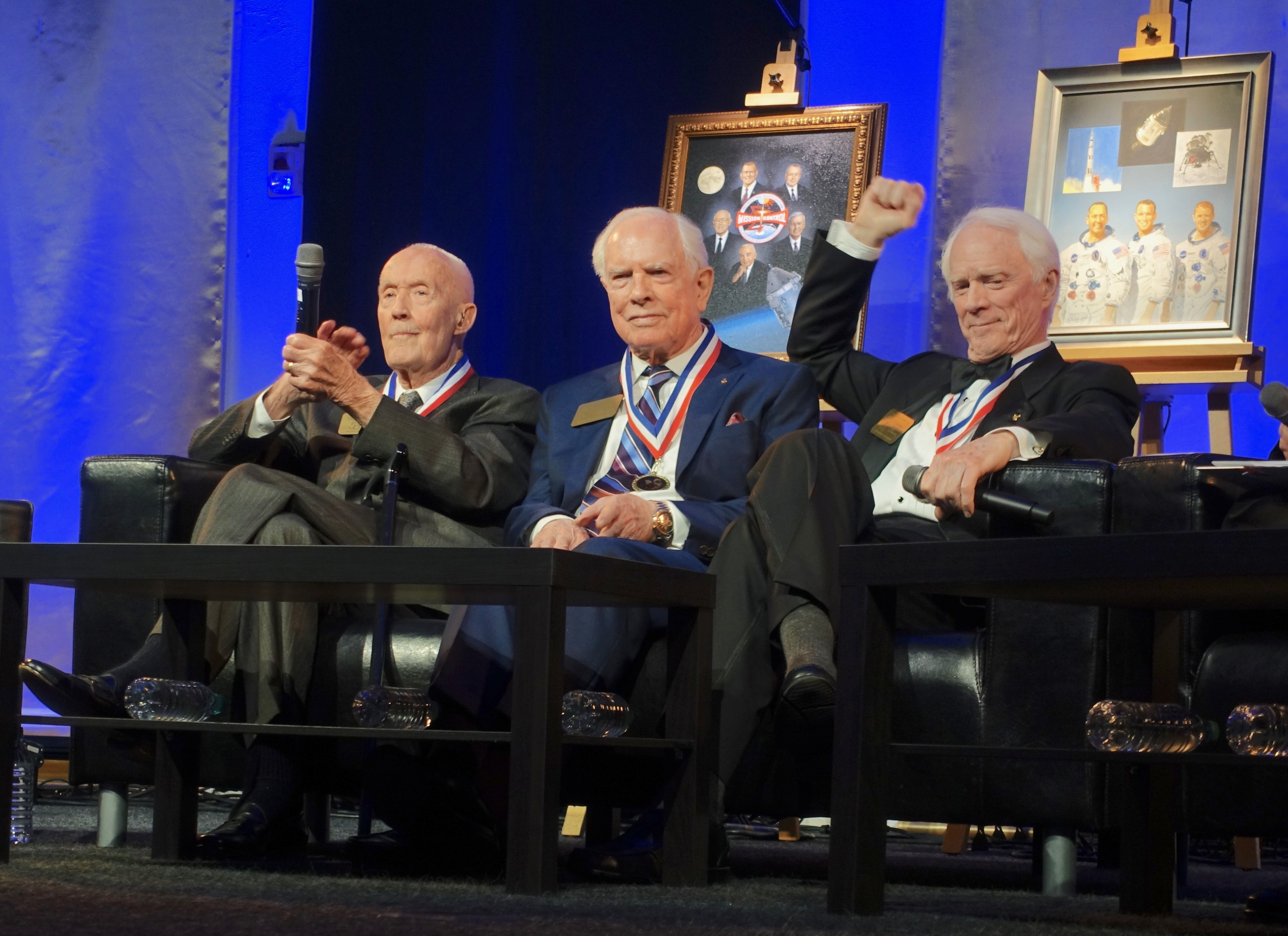 All Three Astronauts on the 50th Anniversary of Apollo 9.